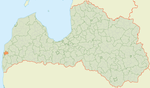 Location of Medze Parish in Latvia